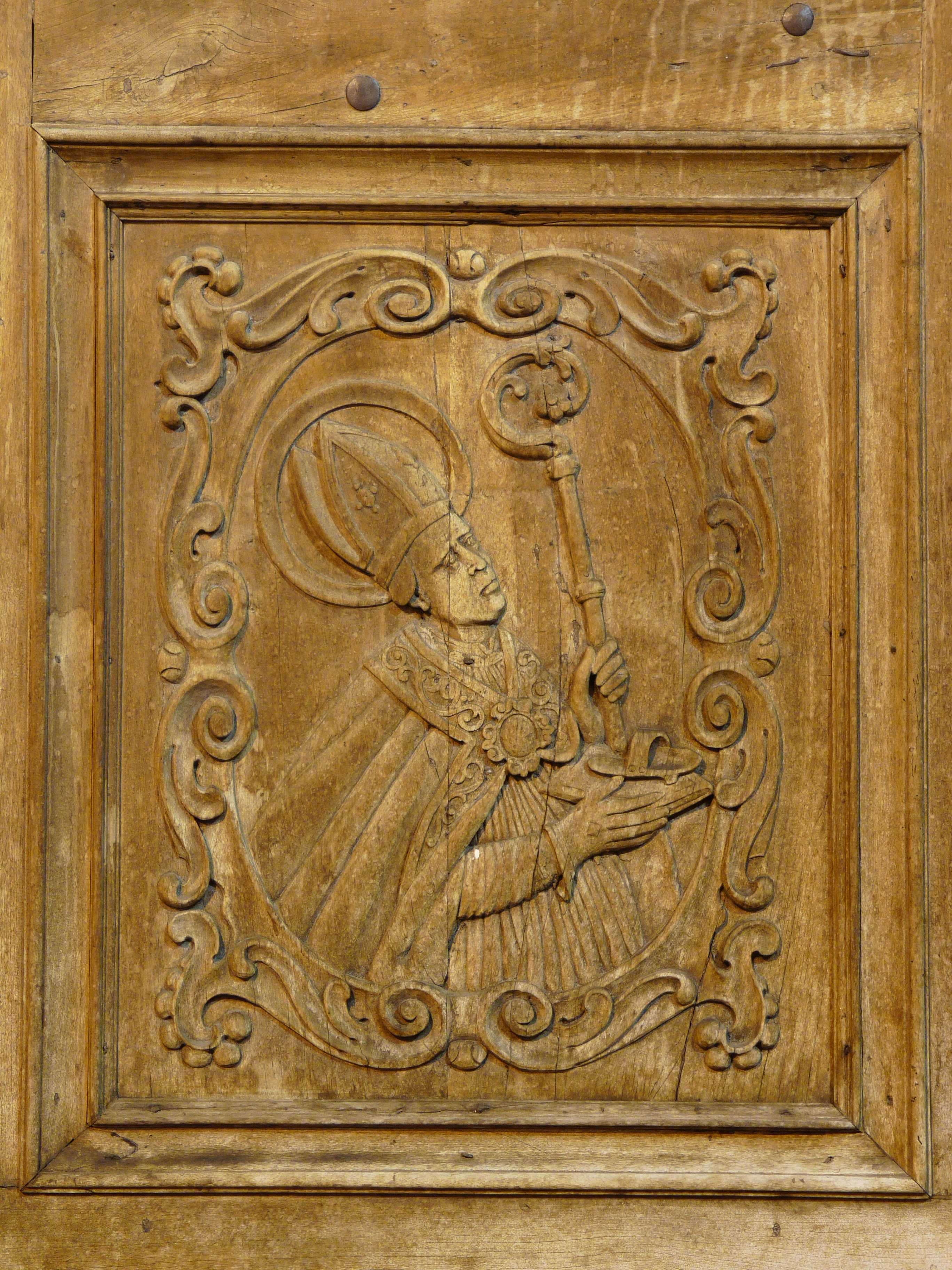 Trento (Italy): bottom left panel of the portal of the church of San Pietro, depicting saint Vigilius.